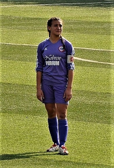 Ece Türkoğlu playing for Karadeniz Ereğlispor in the 2014-15 season away match against Ataşehir Belediyespor.